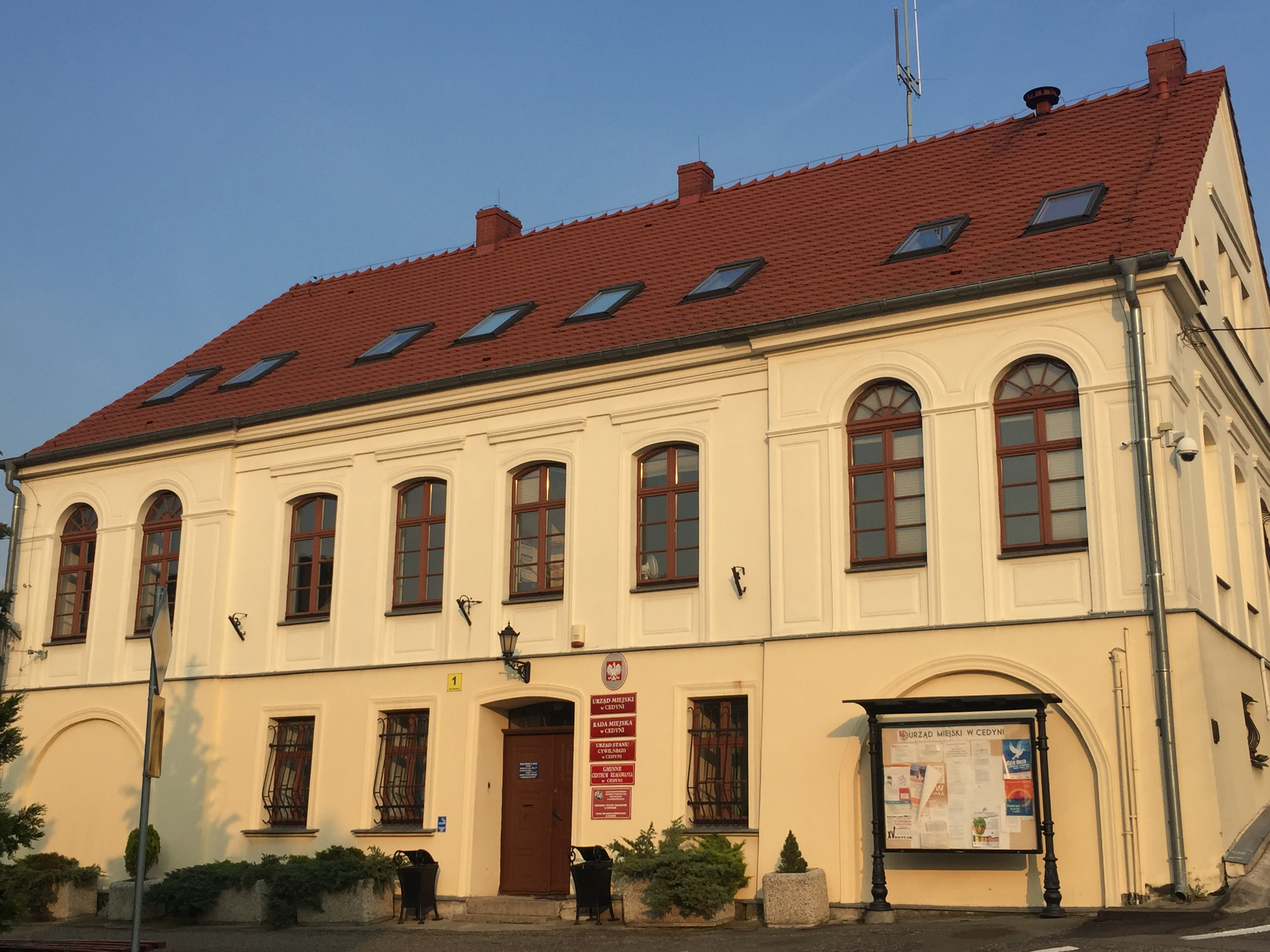 Town Hall, Cedynia, Poland, September 2016